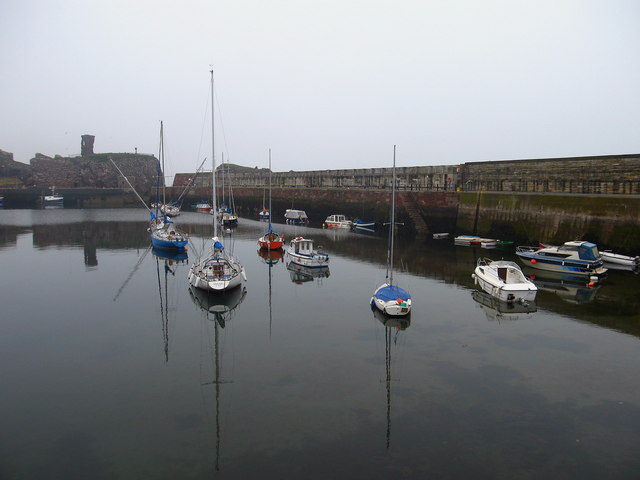 Victoria Harbour, Dunbar. Victoria Harbour (1842) is formed by a sea wall linking two rock outcrops together with a quay along the shore parallel with the wall. This section has two entrances, one to the old harbour channel spanned by a hand-operated wrought-iron, 2-leaf bascule bridge, and the other (at the N end) is open. Dunbar Castle in background.